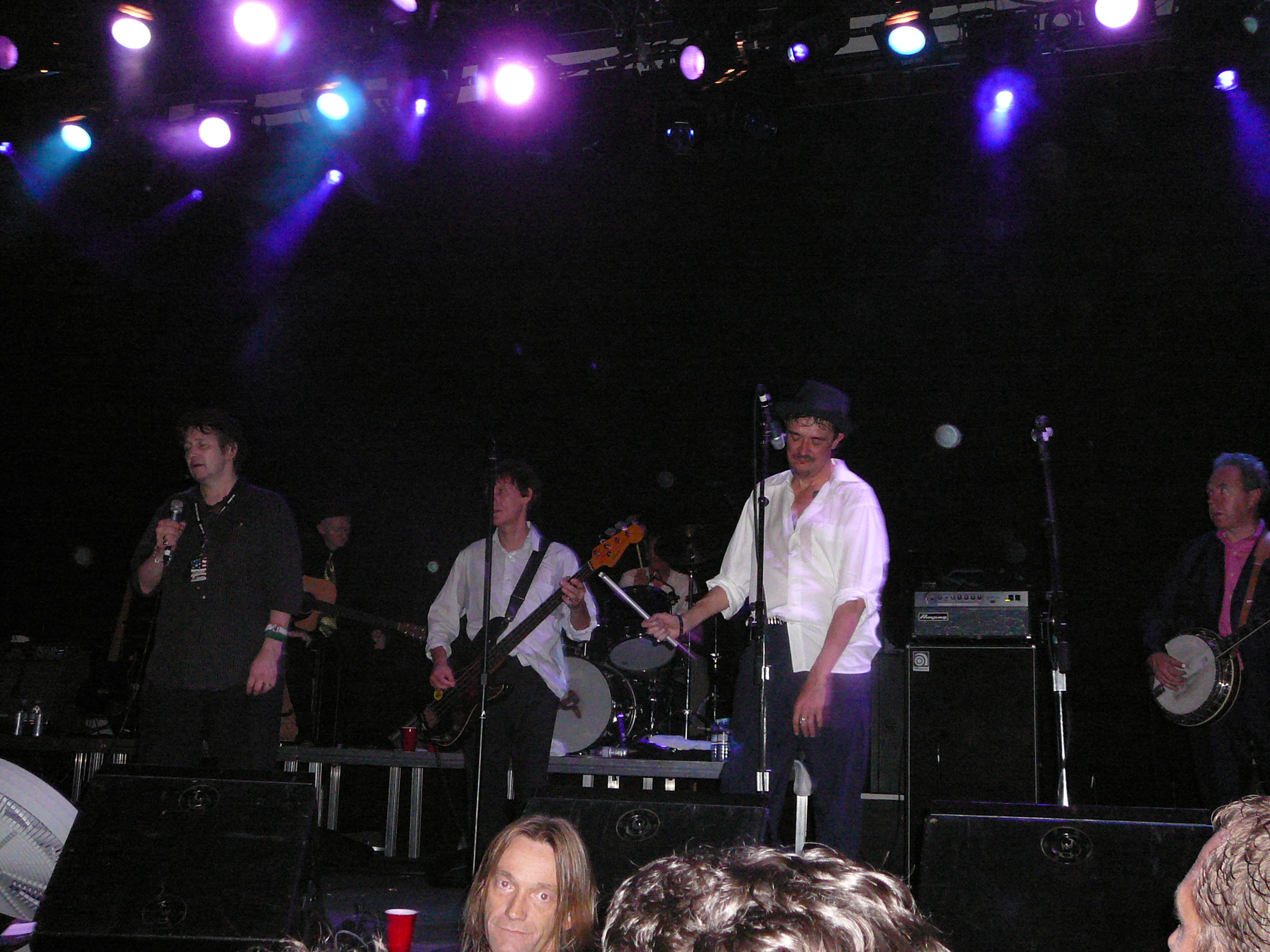 The Pogues